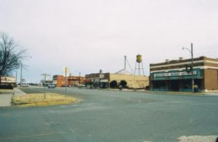 Main Street looking East Rbsfgrlaty 19:53, 11 April 2007 (UTC)